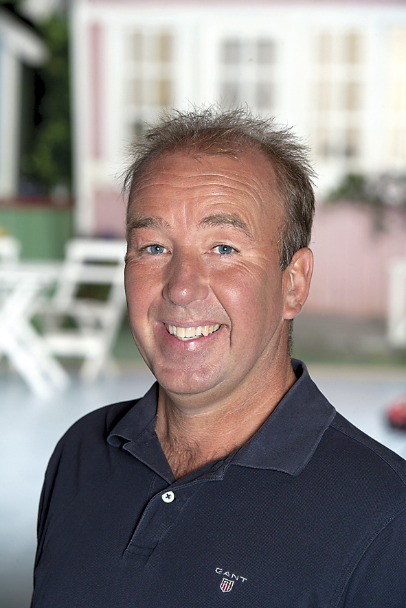 Swedish comedian Stefan Gerhardsson in 2011